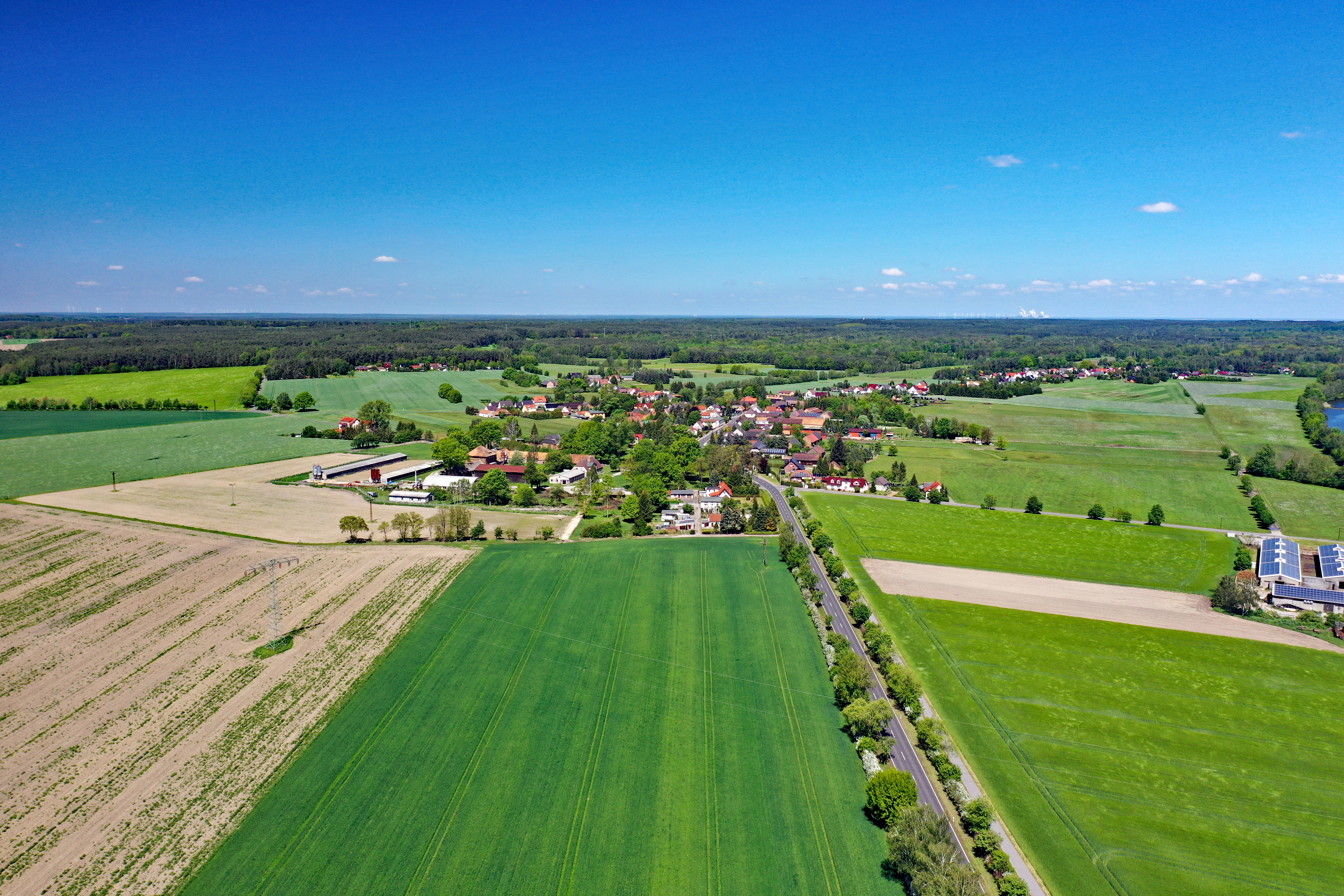 Groß Düben (Saxony, Germany)